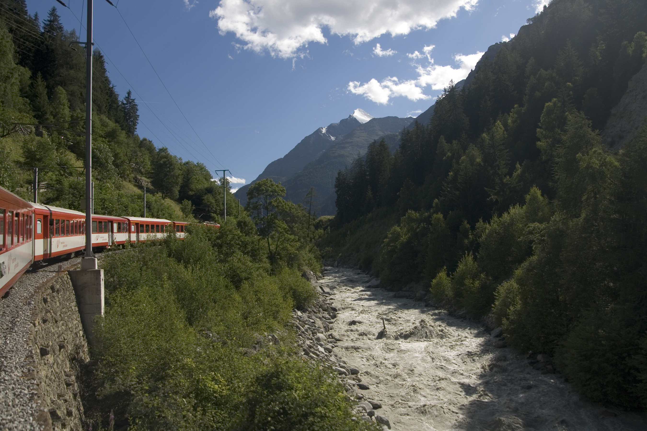 Mountain view from Brig-Zermatt train